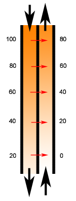 Diagram of a generic countercurrent exchange system